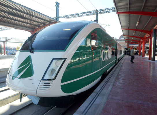 Talgo XXI.